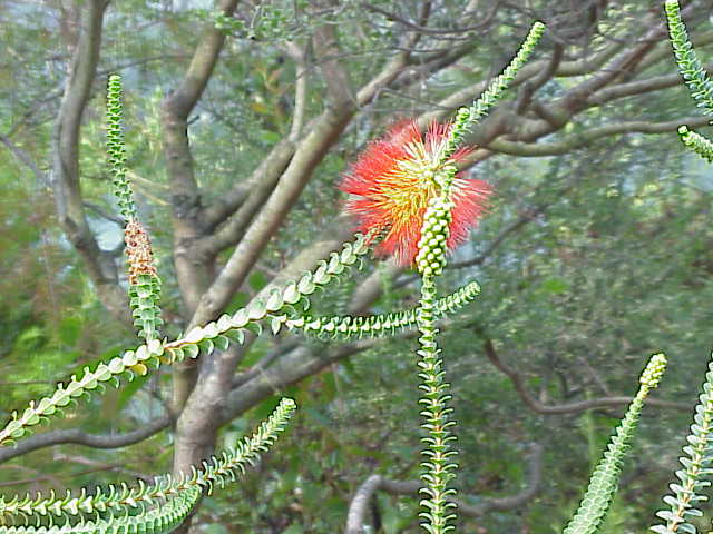 Species: Callistemon citrinus Beaufortia orbifolia Family: Myrtaceae Image No. 5